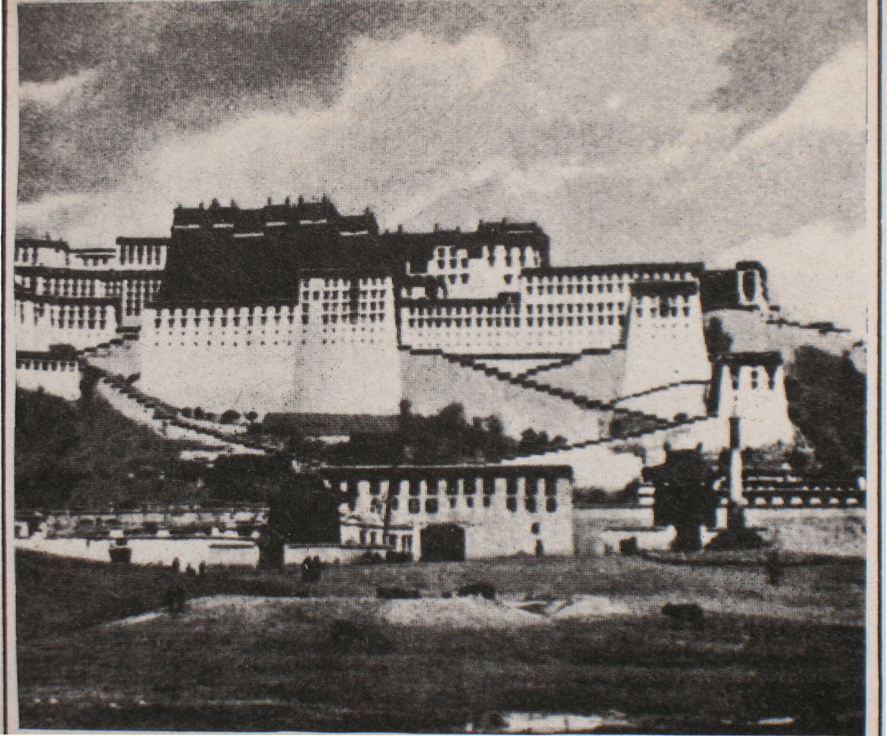 Gombojab Tsybikov photo in Lhasa. Дворец Потала в Лхасе. Фотография сделана скрытой камерой через прорезь в молитвенной мельнице.